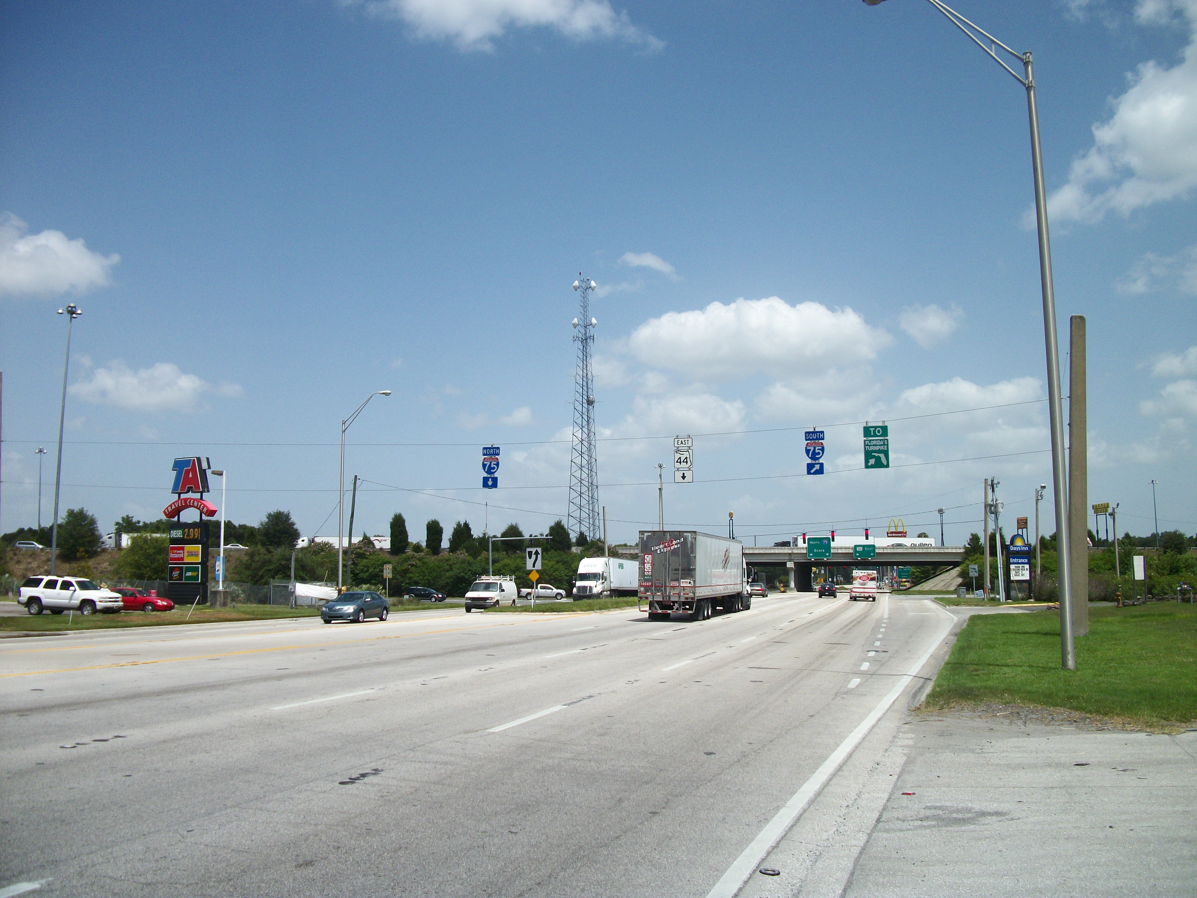 Eastbound Florida State Road 44 as it approaches Interstate 75 in Wildwood, Florida. The southbound off-ramp also leads motorists to Florida's Turnpike, which is just a mile away, and requires cutting across the southbound lane of I-75. This may change because FDOT and Florida's Turnpike Enterprise are planning to extend the service roads and add new ramps in order to prevent cars, trucks, buses and motorcycles from cutting in front of one another. As you can also see, this section of SR 44 is loaded with truck stops, tourist centers, hotels, and what not, because of the interchanges with I-75, and Florida's Turnpike.